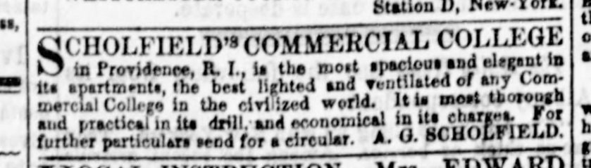 Advertisement in the New York Tribune, 30 March 1866, for Scholfield's Commercial College in Providence, Rhode Island.